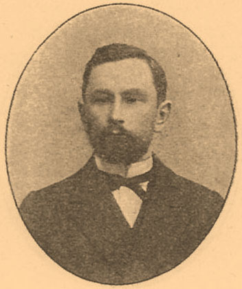 Illustration from Brockhaus and Efron Encyclopedic Dictionary (1890—1907)